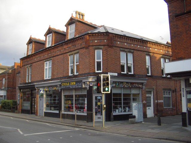 Sid Standard, Beeston